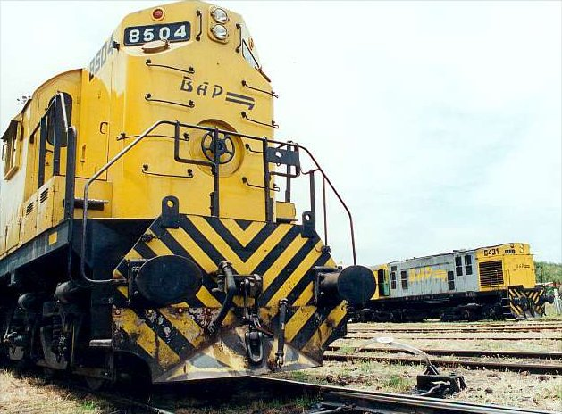 Freight train of General San Martín Railway while being operated by Buenos Aires al Pacífico S.A. (BAP). Both locomotives are ALCO, a RSD-16 (on the front) and a RSD-35 6431 (at the background).